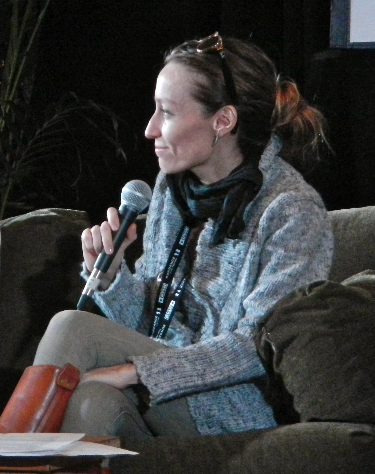 Film Church, Sundance 2012, Park City, UT